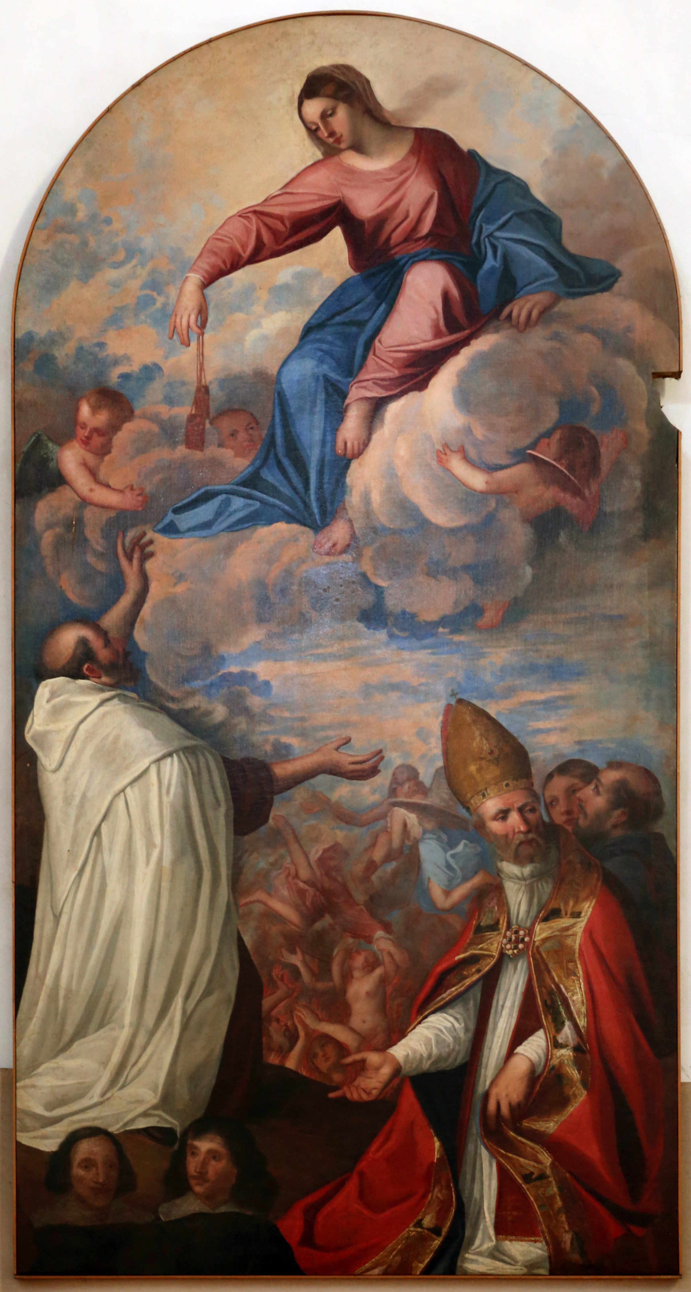 Santa Maria and San Donato (Murano) - Interior